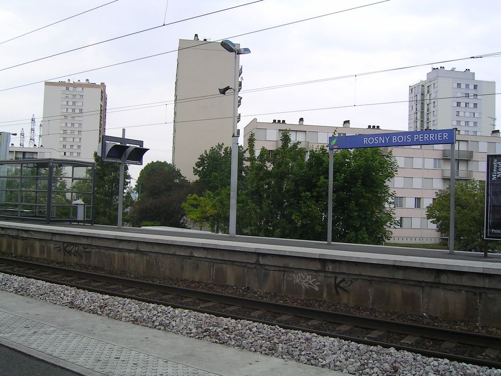 Gare Rosny Bois Perrier Photo personnelle (own work) de Marianna